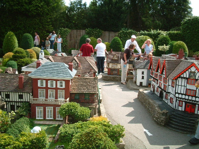 Bekonscot Model Village. for further details